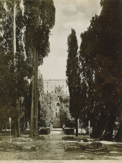 James Anderson (1813-1877) - "Tivoli - Villa d'Este". Catalogue # 621.